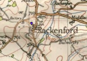 Old map showing the rackenford area